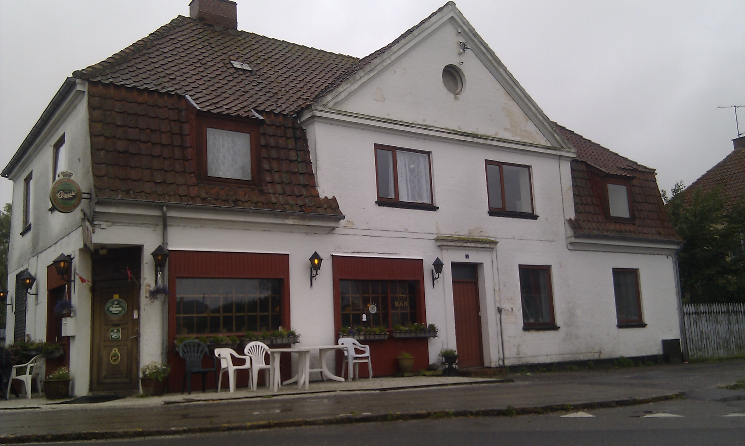 Pub and public house in Gørlev, Western Zealand, Denmark